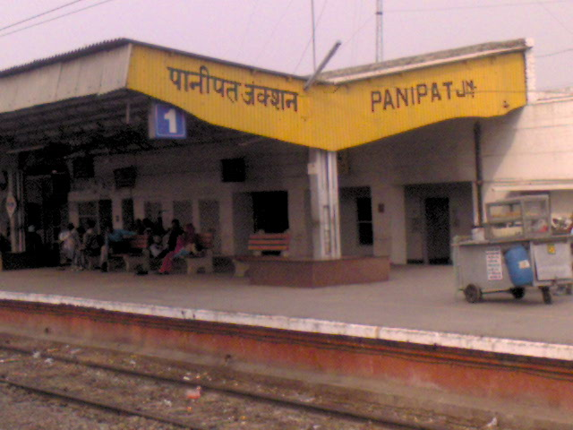 Rail Station shed at Panipat station.